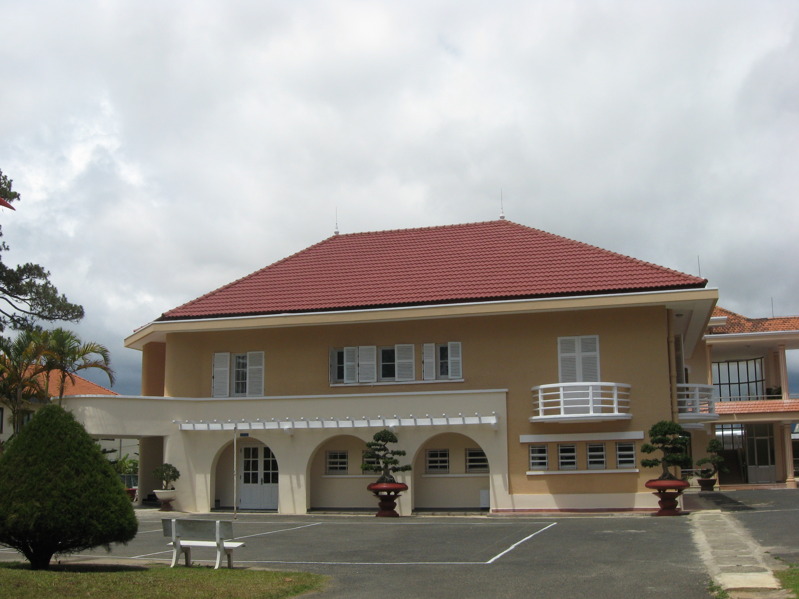 Villa, 29 Quang Trung Street, Da Lat